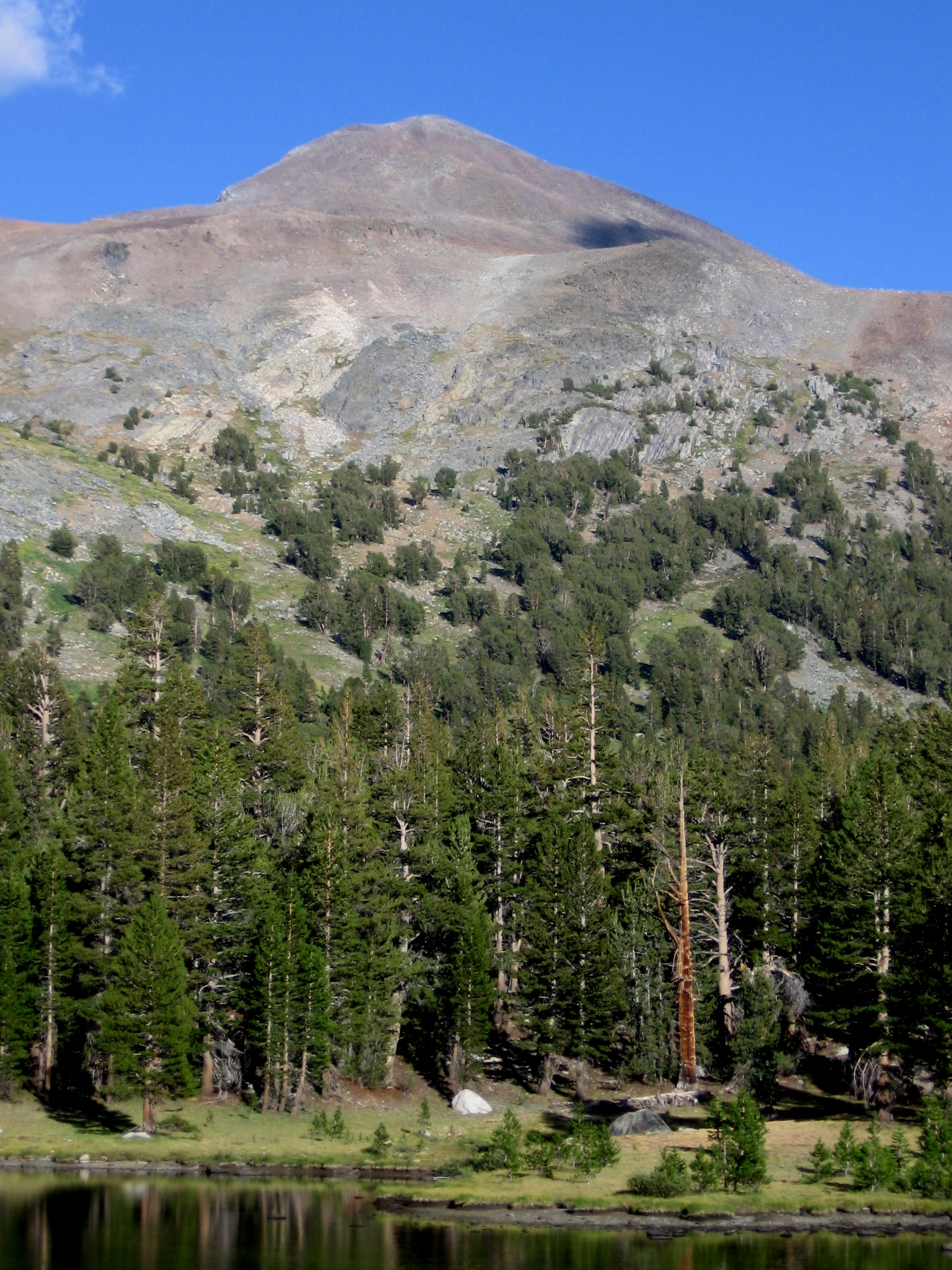 Mount Dana, Yosemite, California, USA. Taken in the parking lot near the entrance to the park.